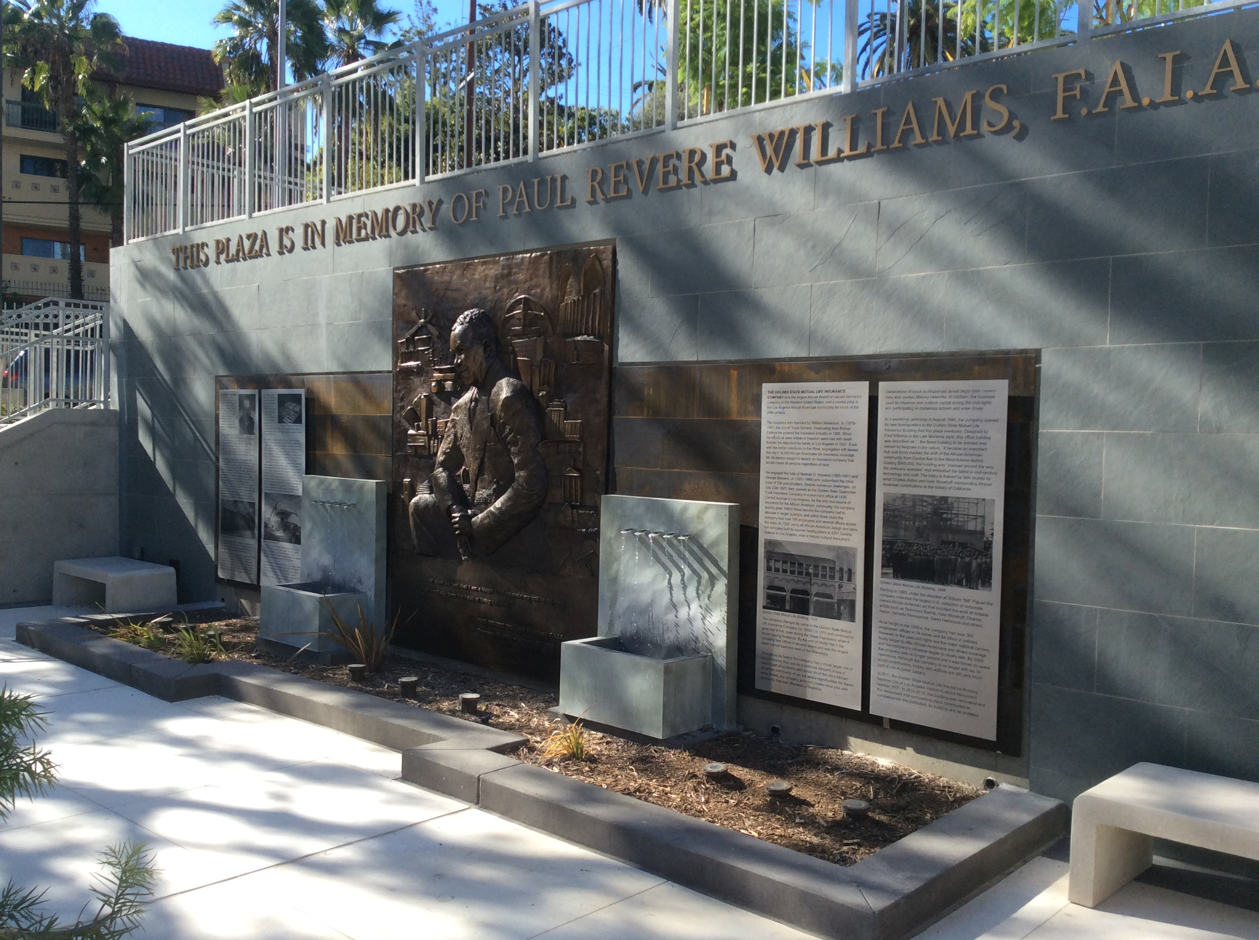 Picture of the Monument to Paul Revere Williams, FAIA, at the SCLARC Legacy Plaza photographed October 2, 2015 shortly after installation of the bas relief and interpretive panels.